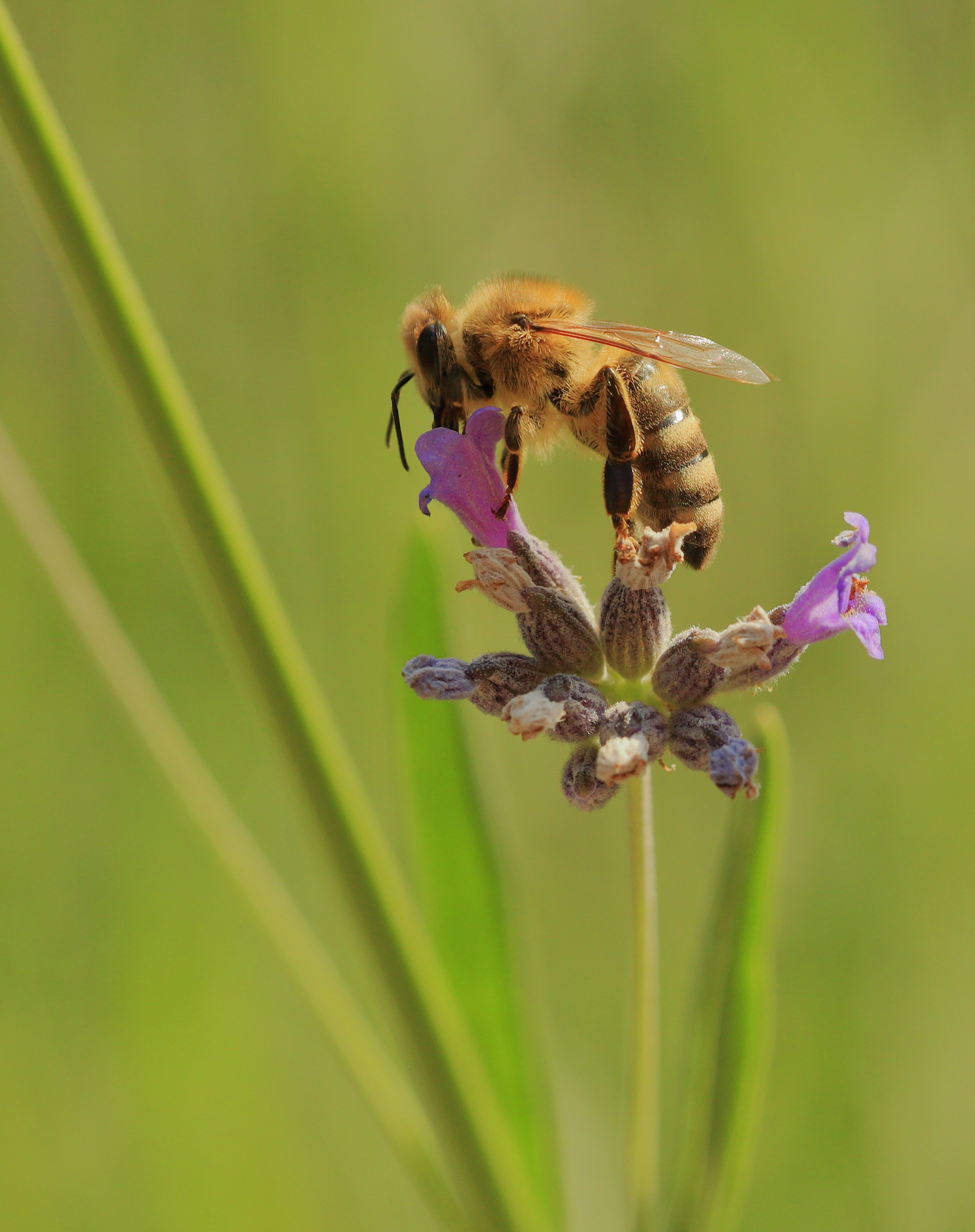 European Honey Bee (Apis mellifera) sitting on a lavender blossom.